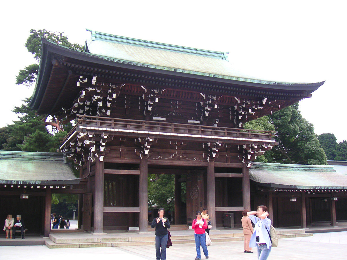 Entrance of Meiji shrine.